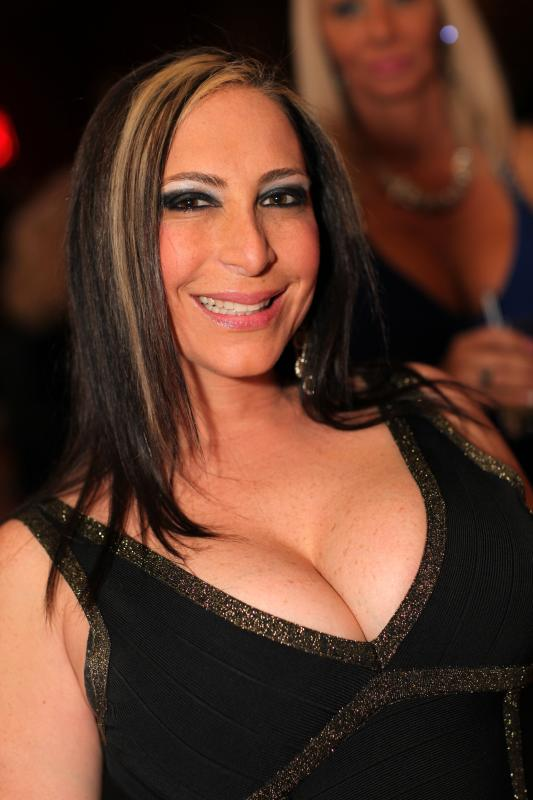 Savannah Jane at the 2013 AVN Awards held in the Hard Rock Hotel & Casino in Las Vegas. Please provide photographer credit when using, tweeting, etc... Photo by Michael Dorausch This photo is licensed under a Creative Commons license. If you use this photo within the terms of the license or make special arrangements to use the photo, please list the photo credit as "Michael Dorausch" and link the credit to . Thank you to everyone for being so accommodating during the days I took photos, it's much appreciated.